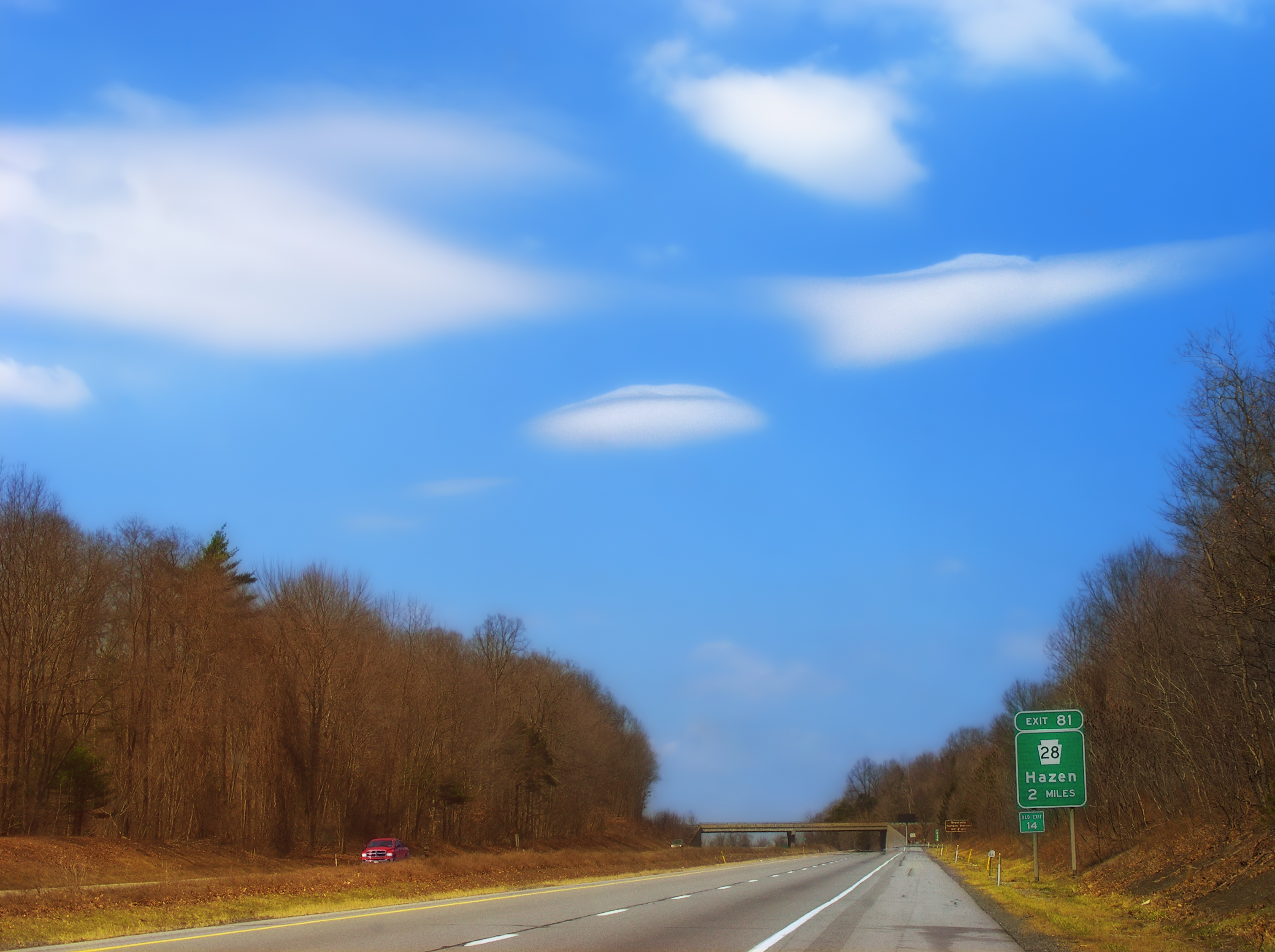 Mixed cloud formations (including two small lenticulars), Interstate 80 West, Pine Creek Township, Jefferson County.